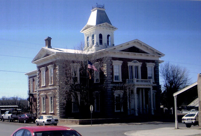 The Old Tomstone Courthouse in Tombstone, Arizona was built in 1882. It is listed in the National Register of Historic Places #72000196.